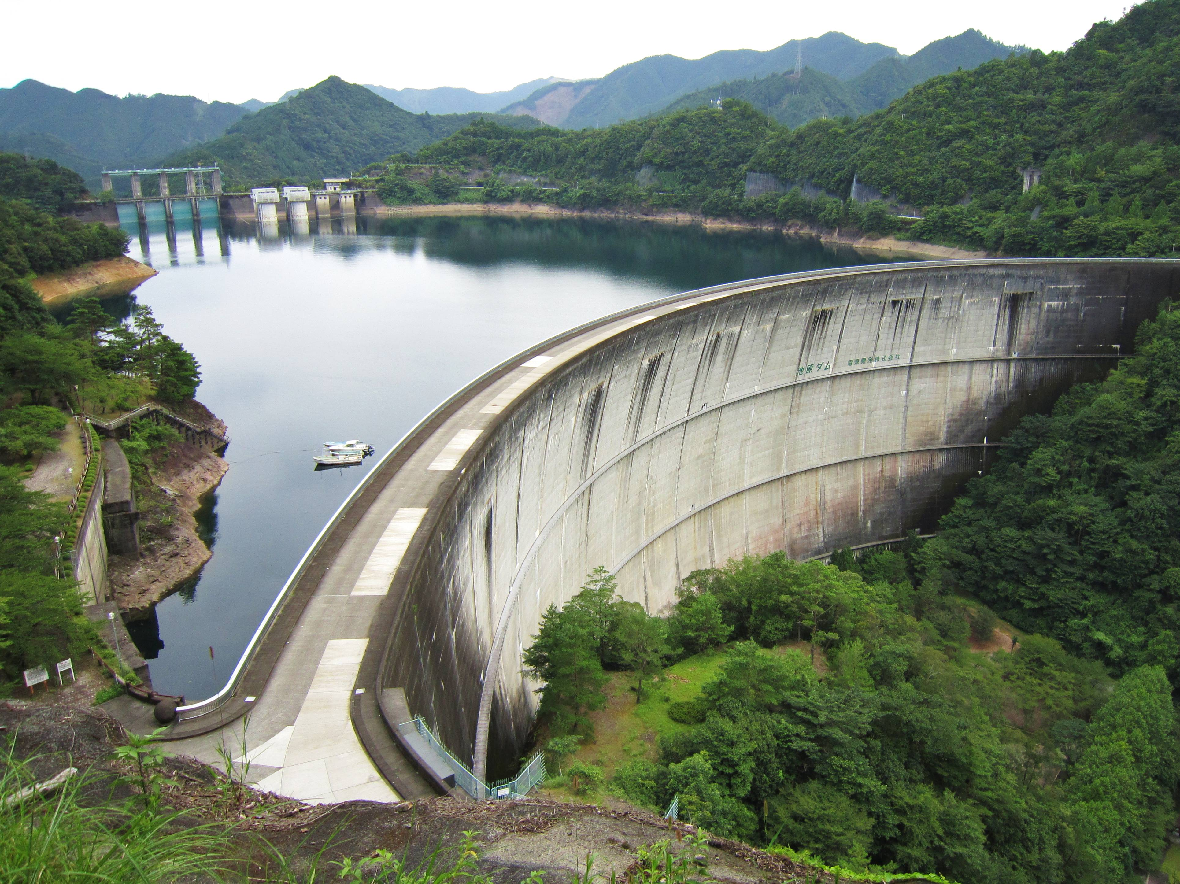 Ikehara Dam.